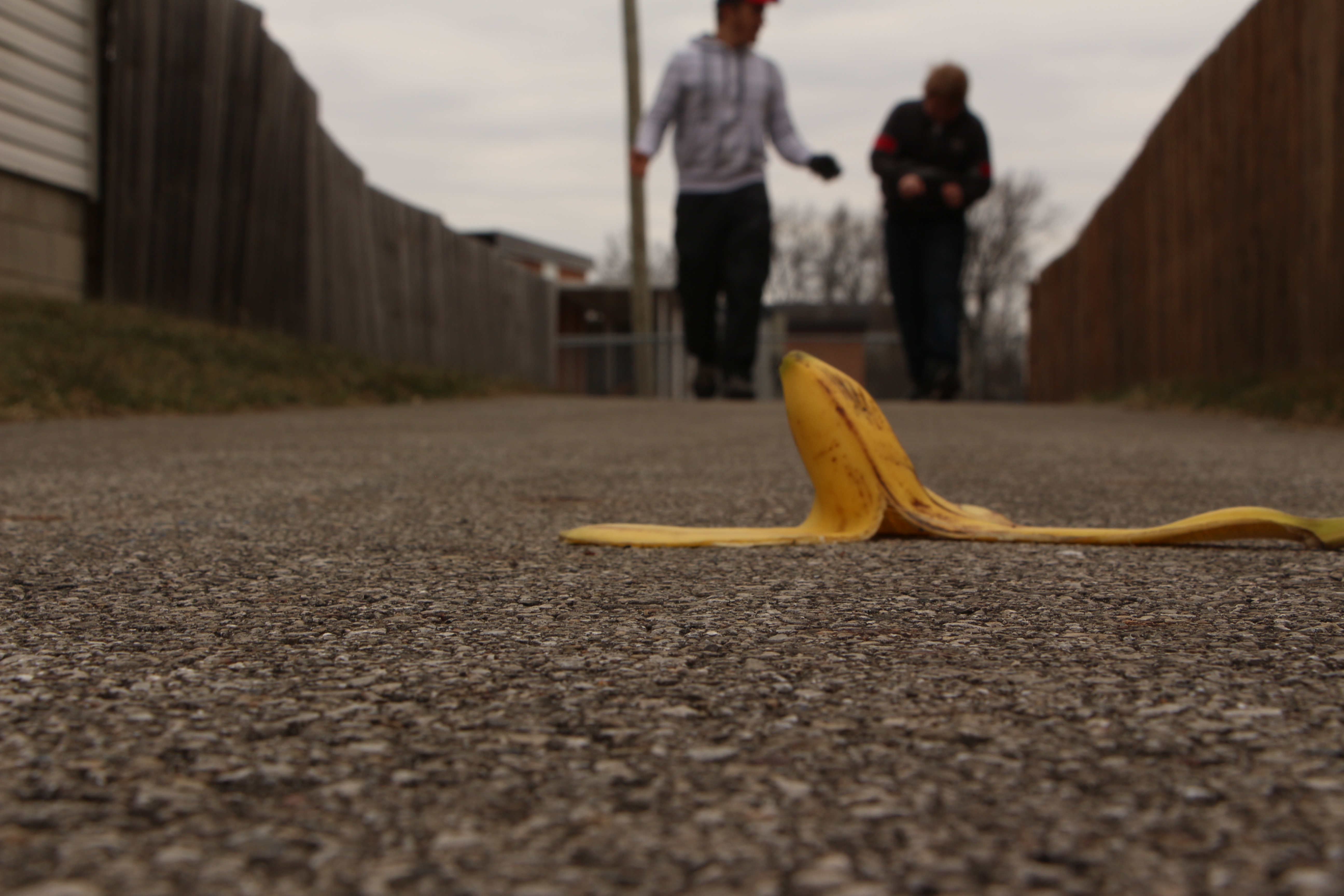 This is a banana peel on the floor.